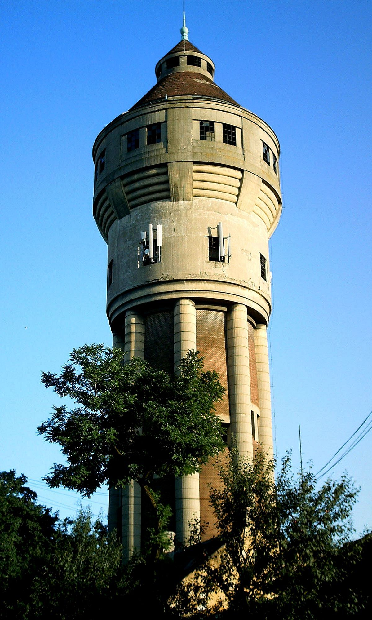 Water tower in Iosefin, Timisoara, Romania